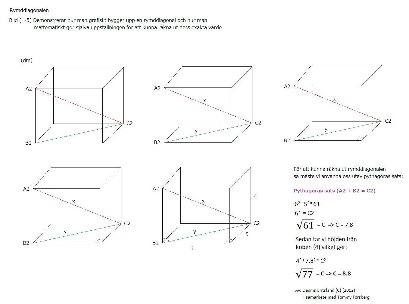 How to count the spacediagonal